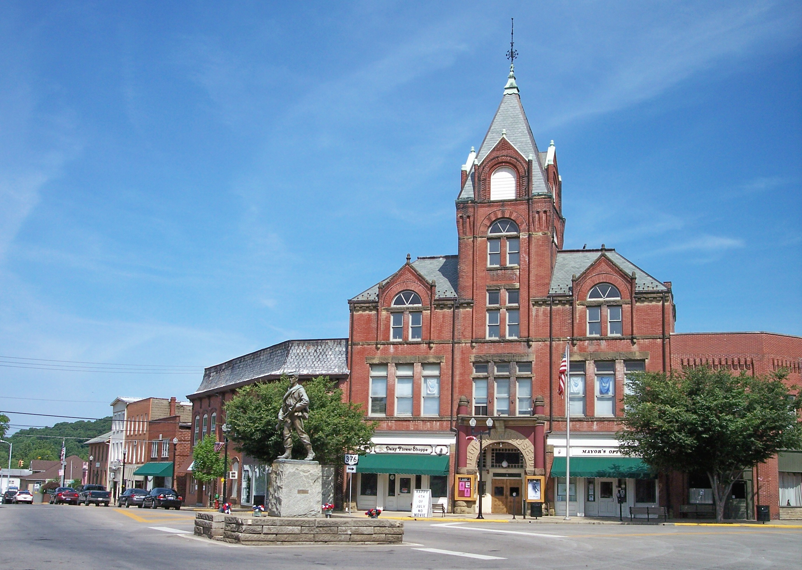 Main Street at the junction of Ohio Routes 60/78 and 376 in downtown McConnelsville, Ohio.